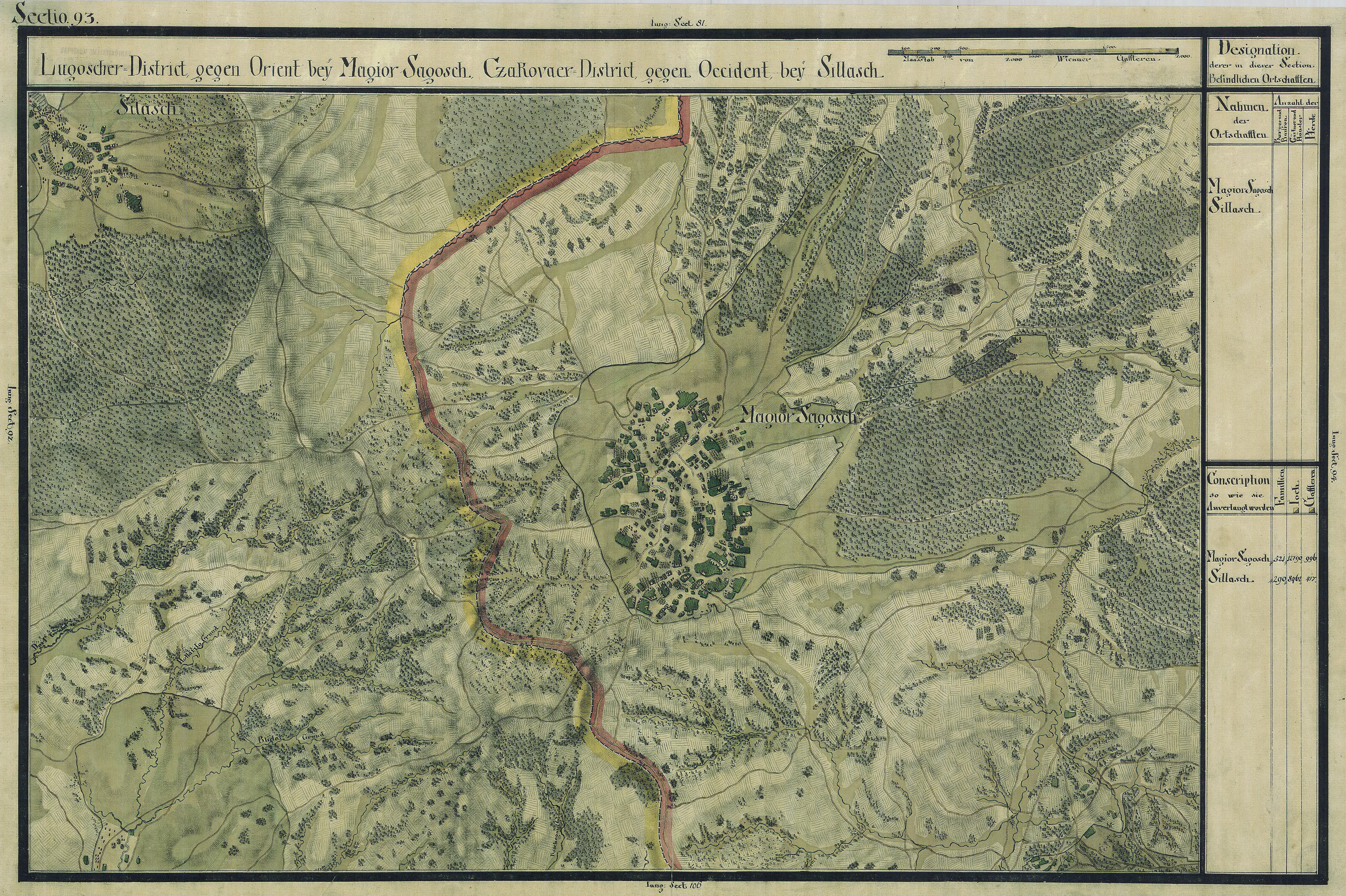 The Banat region in the cadastral maps: Josephinische Landesaufnahme, 1769-72. Josephinische Landaufnahme pg093